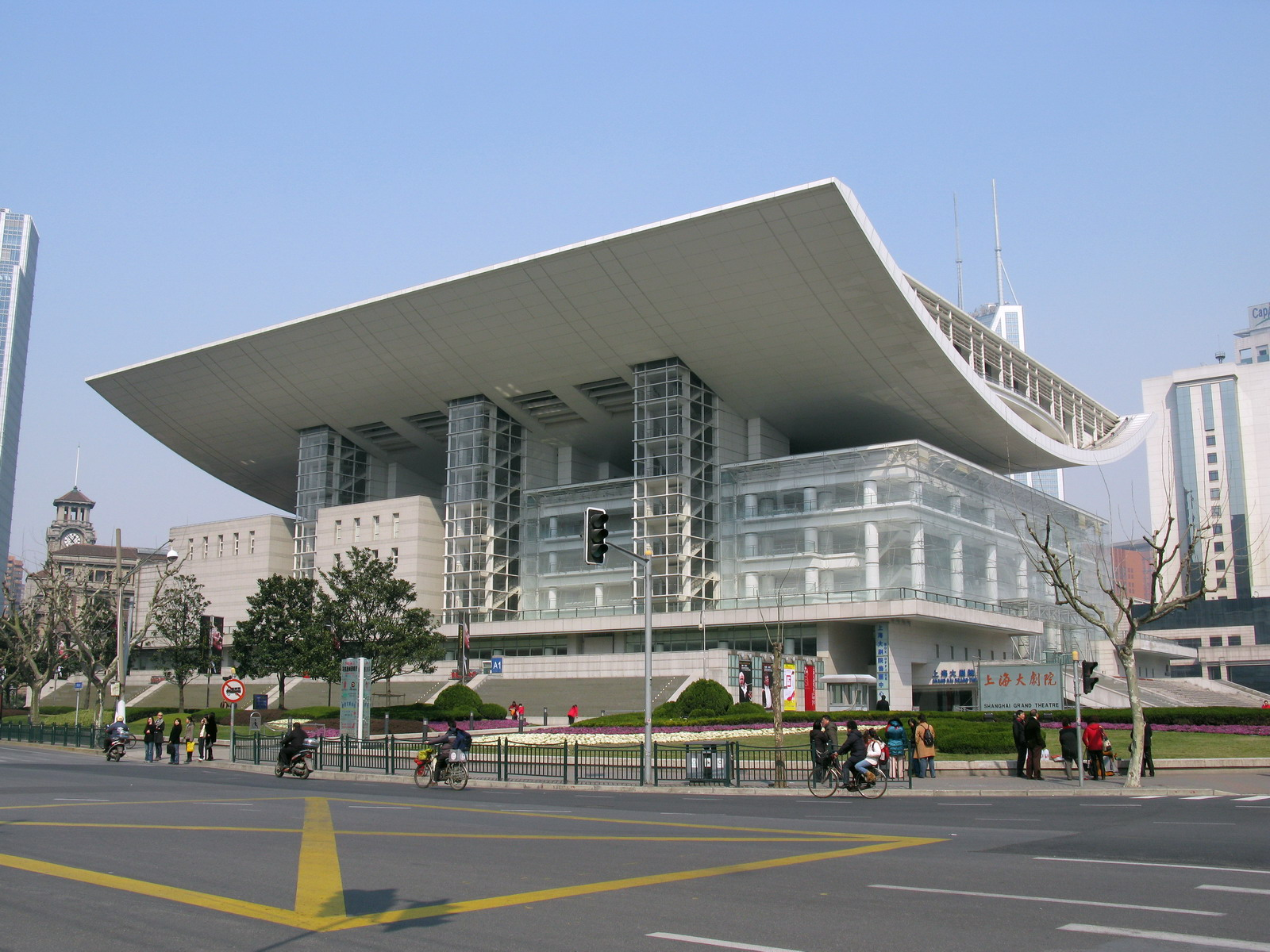 上海大剧院 Shanghai Grand Theatre